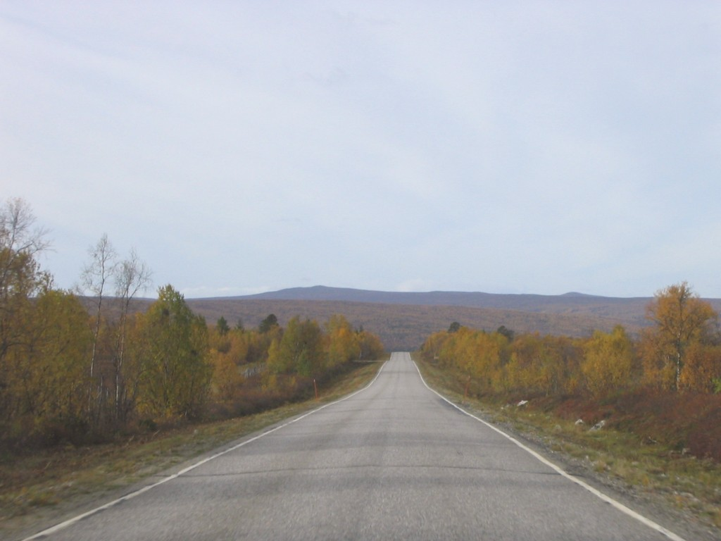 Road 92 between Kaamanen and Karigasniemi, Finland.